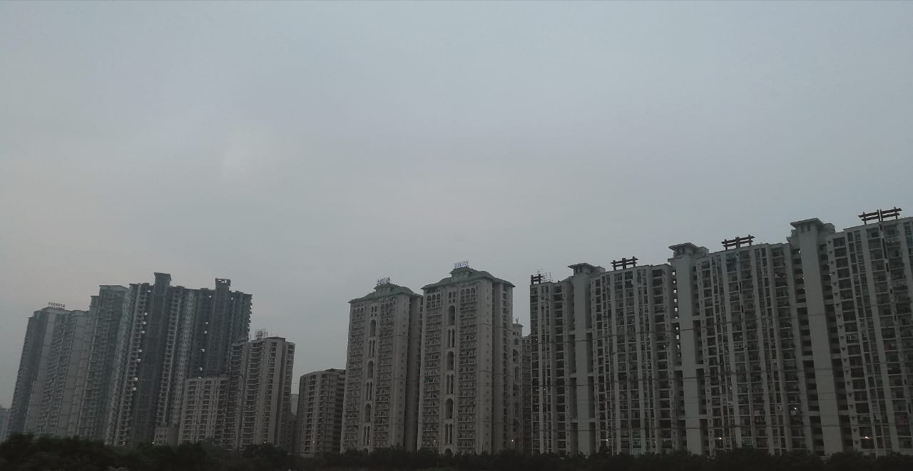 Noida sector 78 skyline